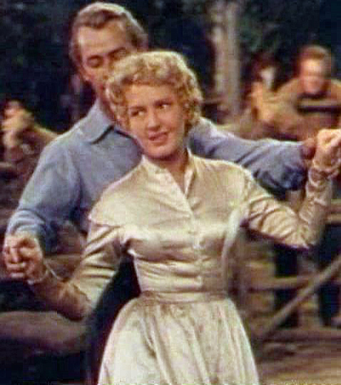 Cropped screenshot of Jean Arthur from the trailer for the film Shane